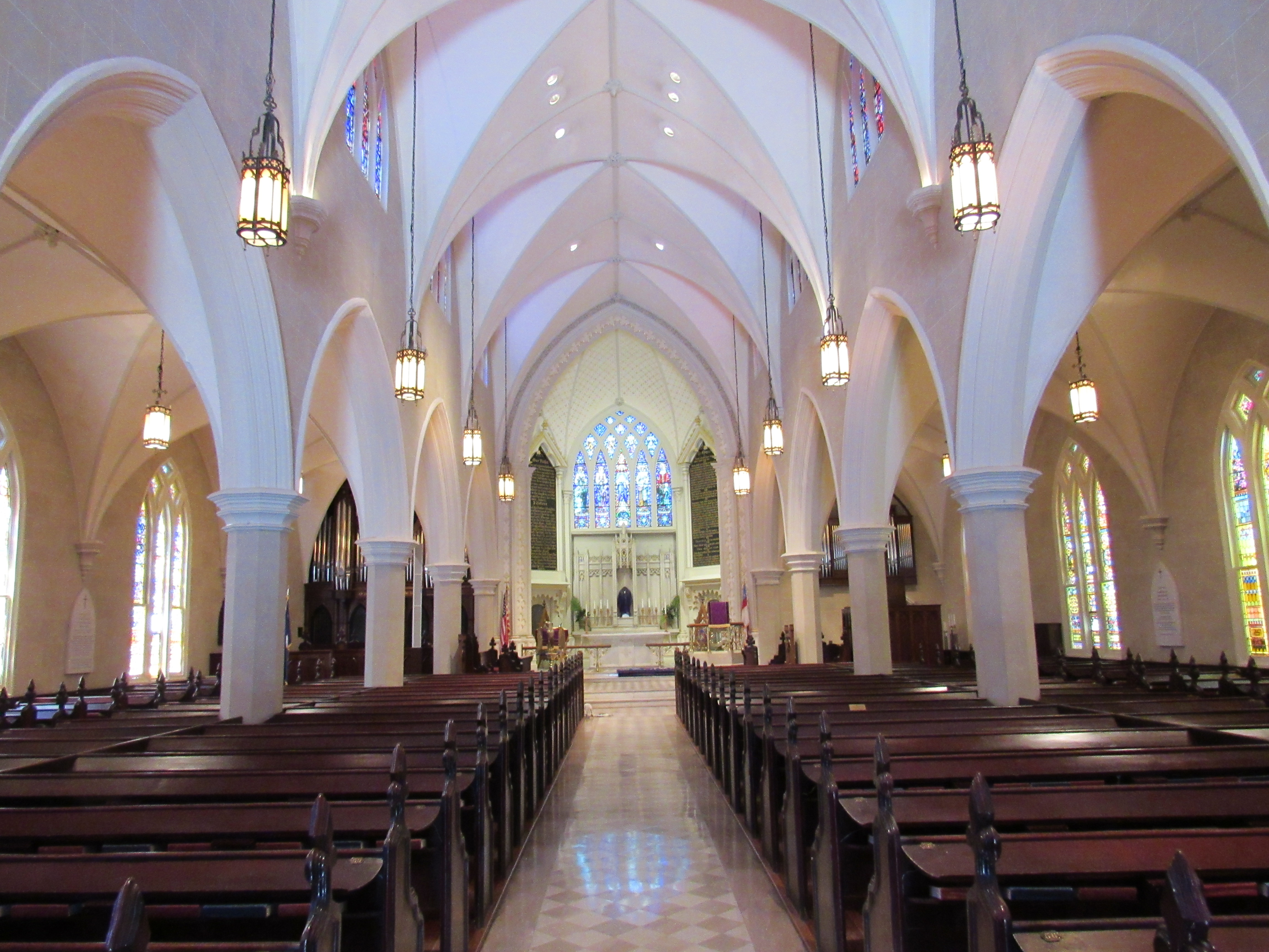 The interior of Grace Church Cathedral in Charleston, South Carolina.